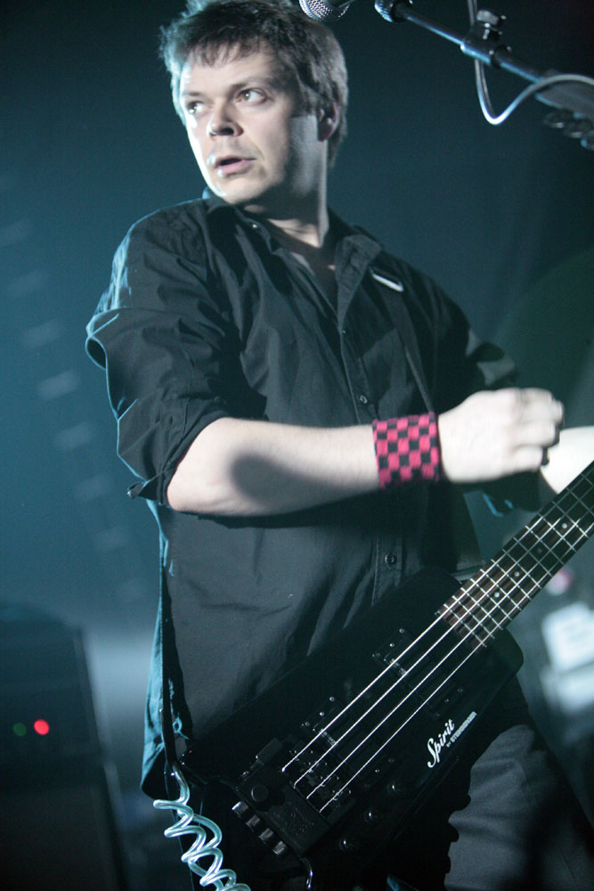 Mick Quinn performs with Supergrass at the Astoria, London